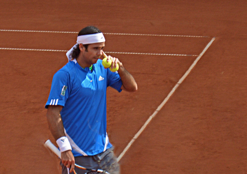 Fernando Gonzalez at the Hamburg Masters 2007